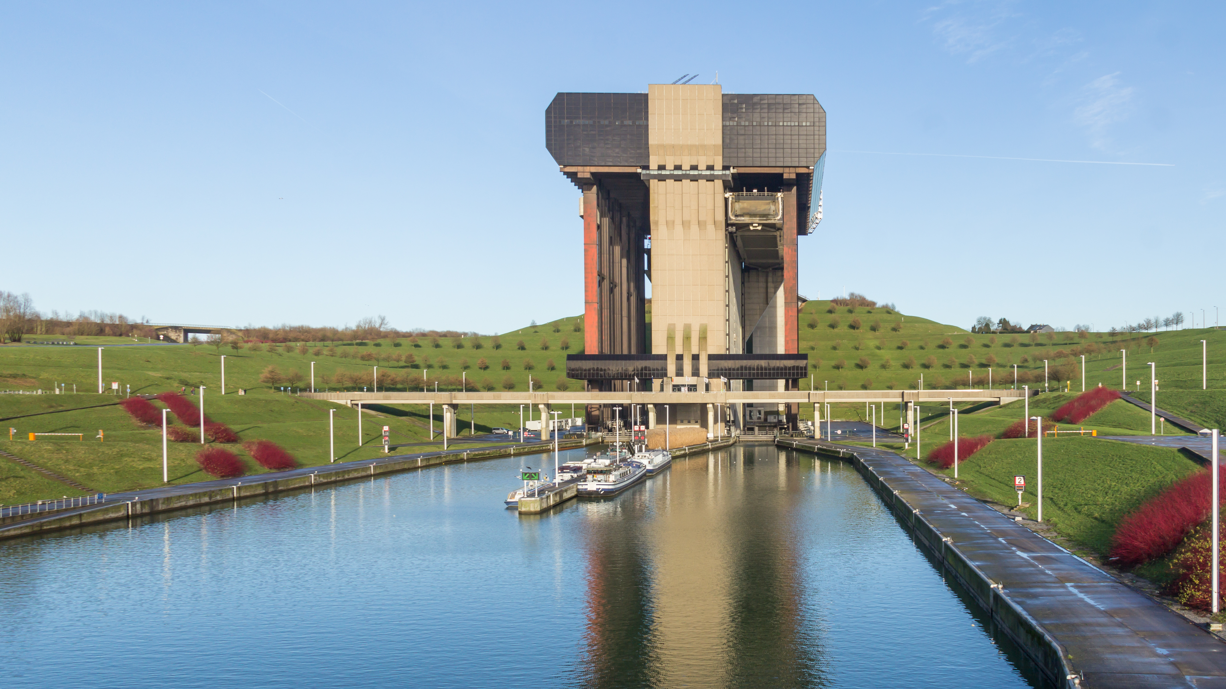 Strépy-Thieu boat lift